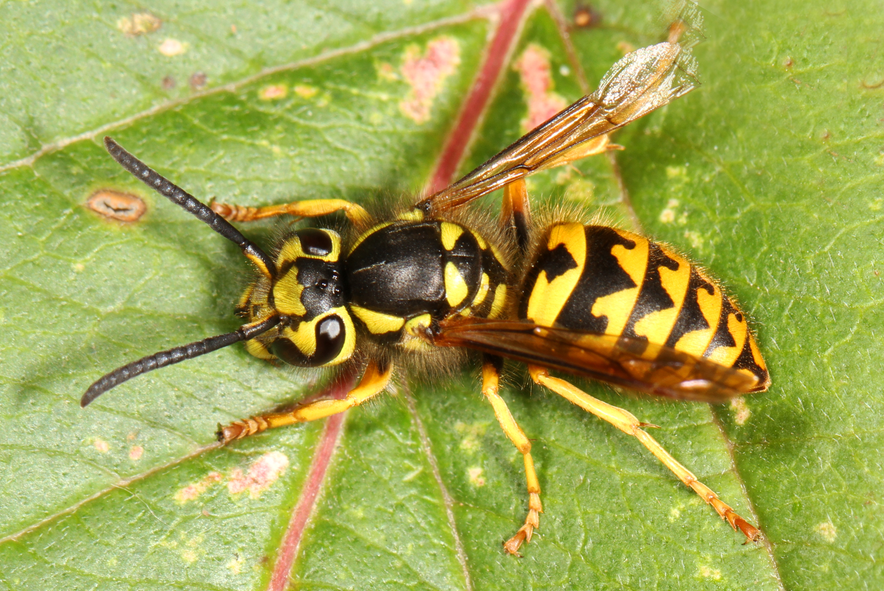 Day 282 - Western Yellowjacket - Dominula pensylvanica, Vaseux Lake Provincial Park, Okanagan Falls, British Columbia